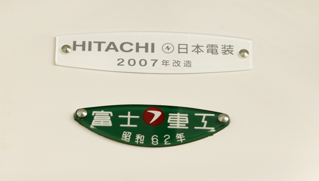 Builder's plate of Fuji Heavy Industries, in The Tobu Railway 9000 Series.